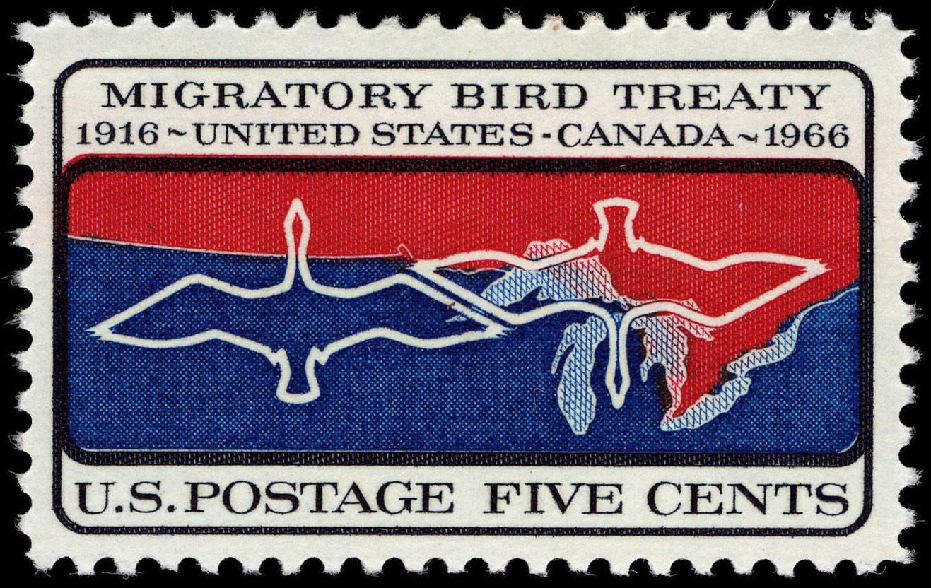 Migratory Bird Treaty - "1916 - United States - Canada - 1966" - 5-cent 1966 issue U.S. stamp.